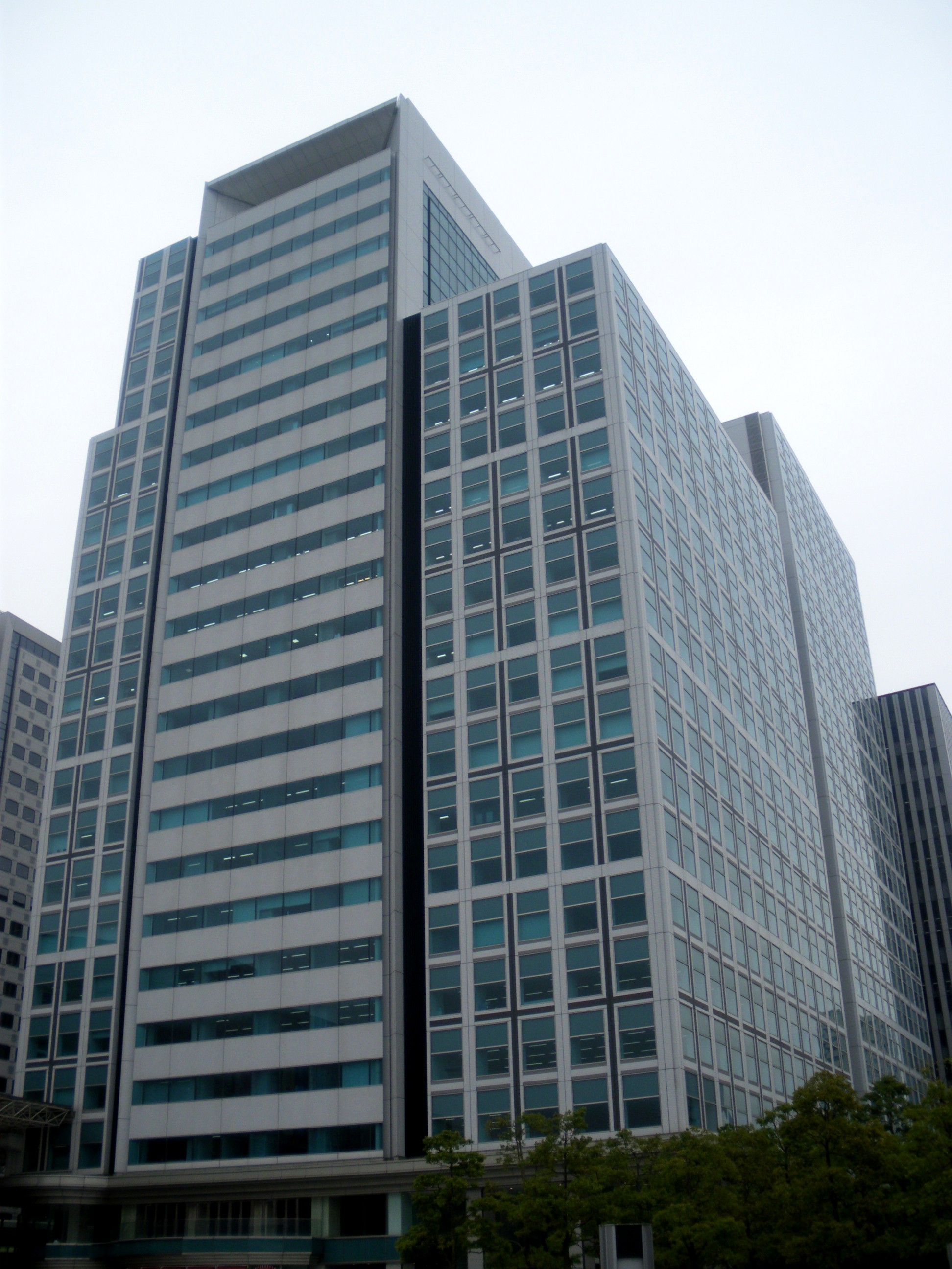 A photo of Shinagawa Seaside Park Tower(Panasonic Tower)(near side) and Shingawa Seaside Rakuten Tower(far side)Higashishinagawa,Shinagawa-ku,Tokyo,Japan.